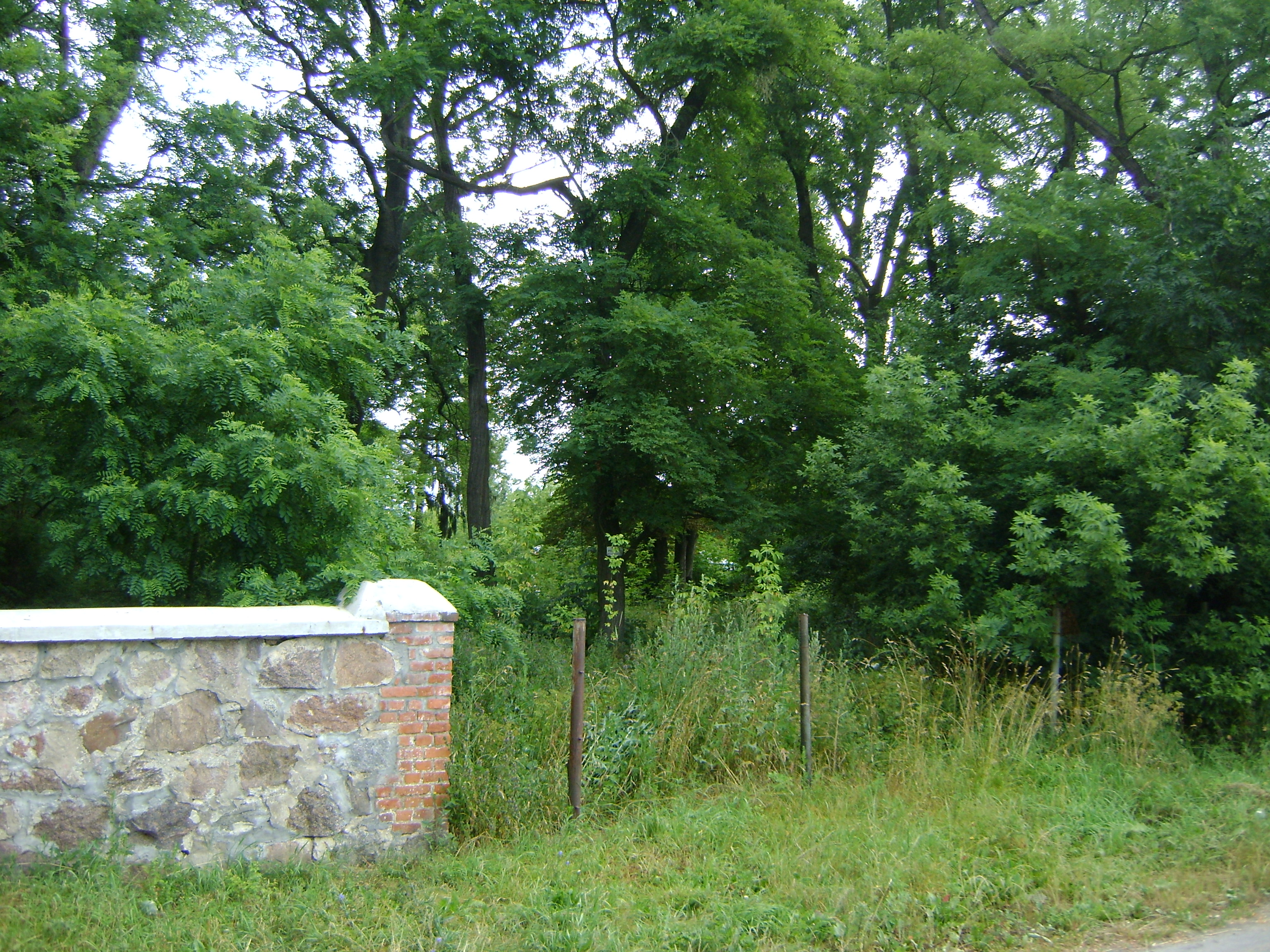 Belno community Gostynin - the entrance to the old manor park